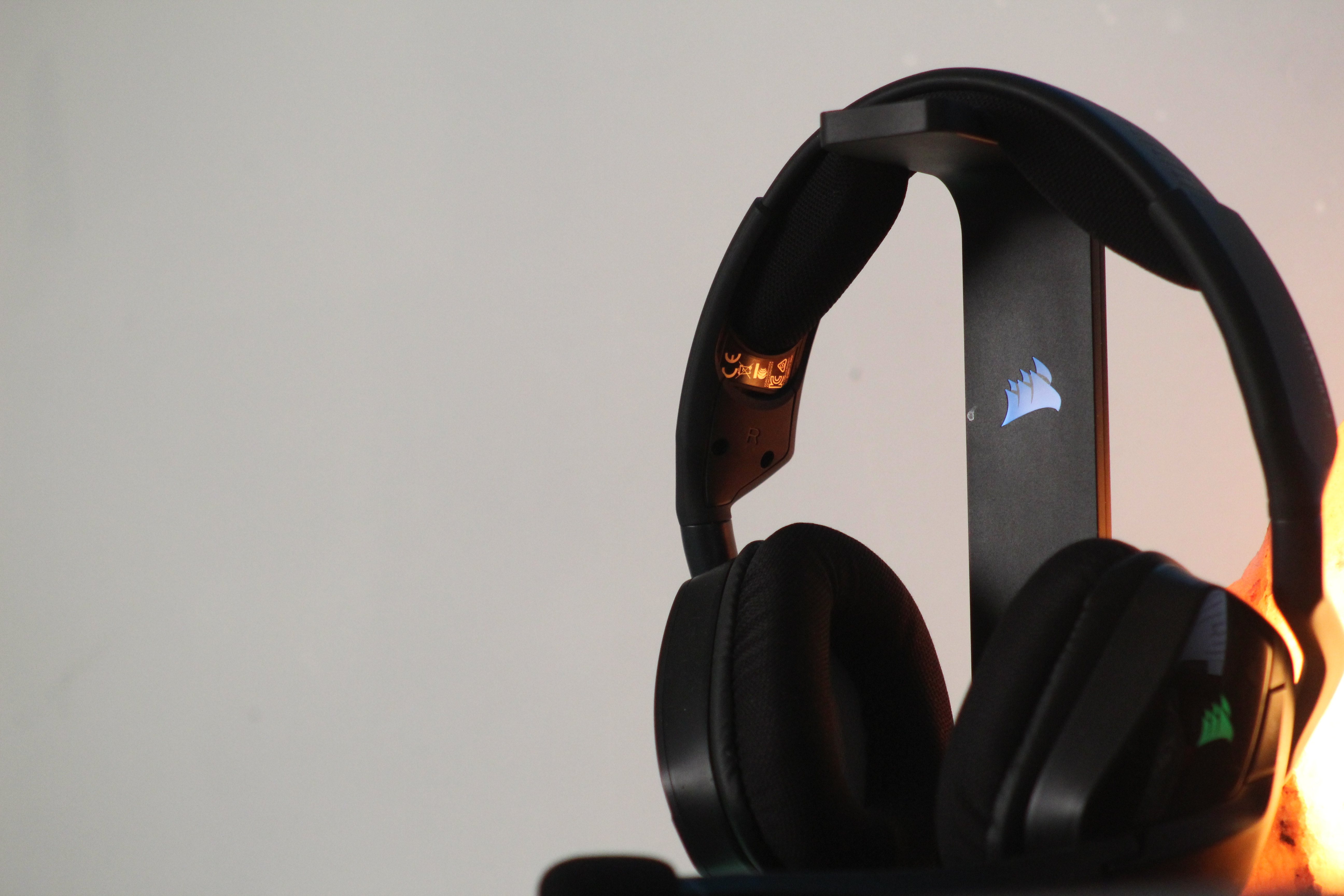 CORSAIR ST100 and Void Pros